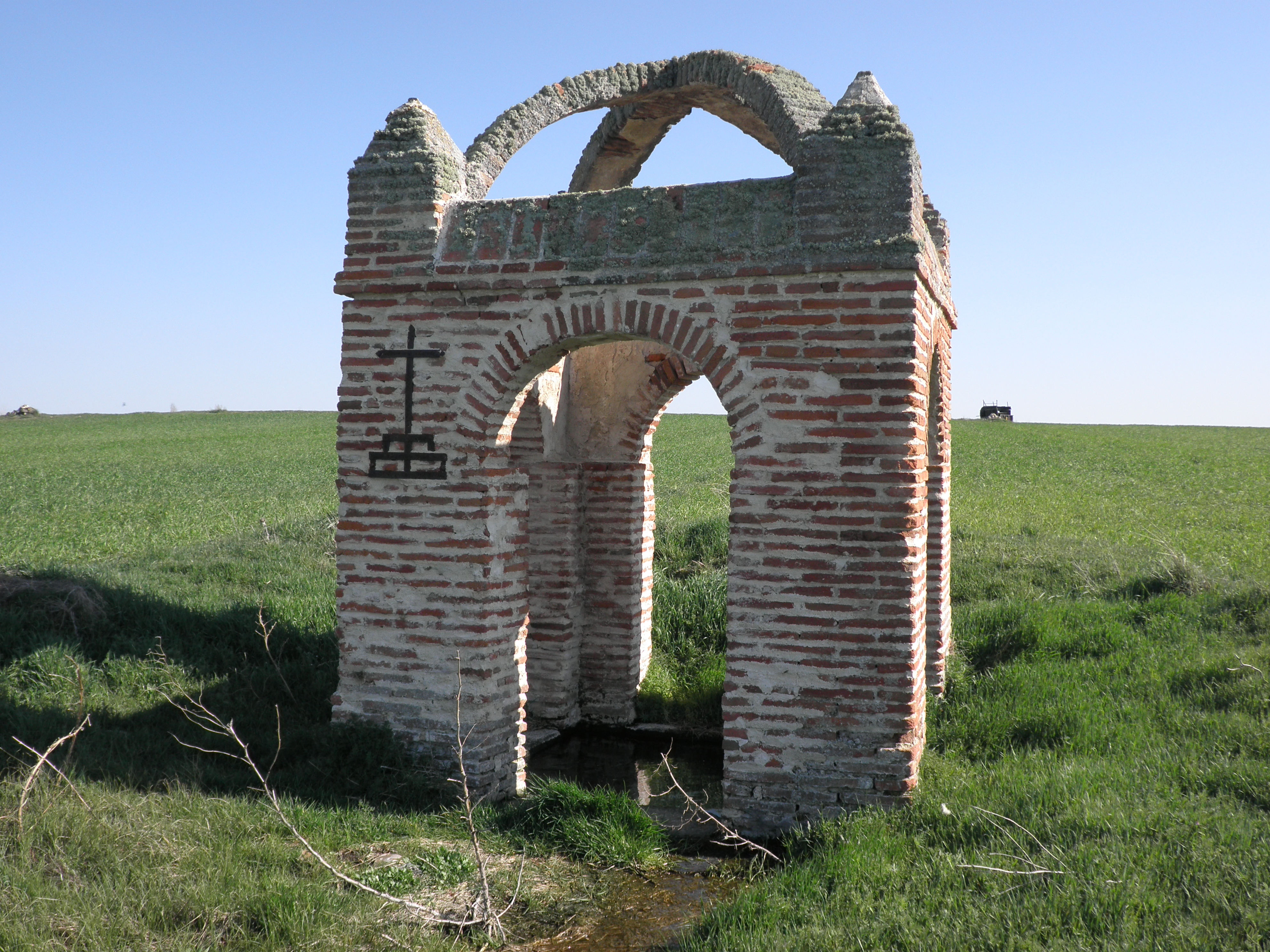 Pelencha fountain in Melque de Cercos, Segovia province, Spain.